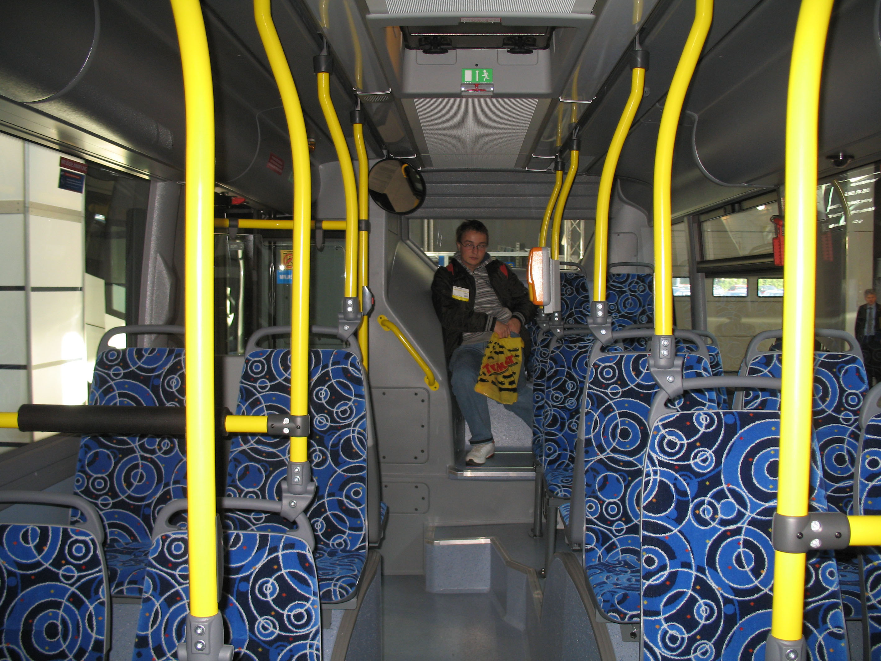 Scania CN280UB 4x2 EB OmniCity bus interior (reg. GS 55979, #3038) in Kielce, Poland. Built 2010, MZK Słupsk operator. Transexpo 2010.